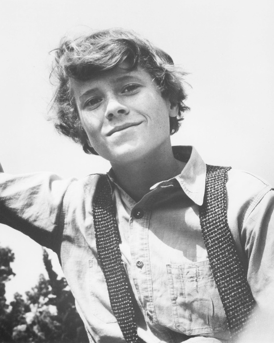 Advance publicity photo of American teen actor, Jeff East promoting his role as Huckleberry Finn in the 1973 United Artists feature film Tom Sawyer.